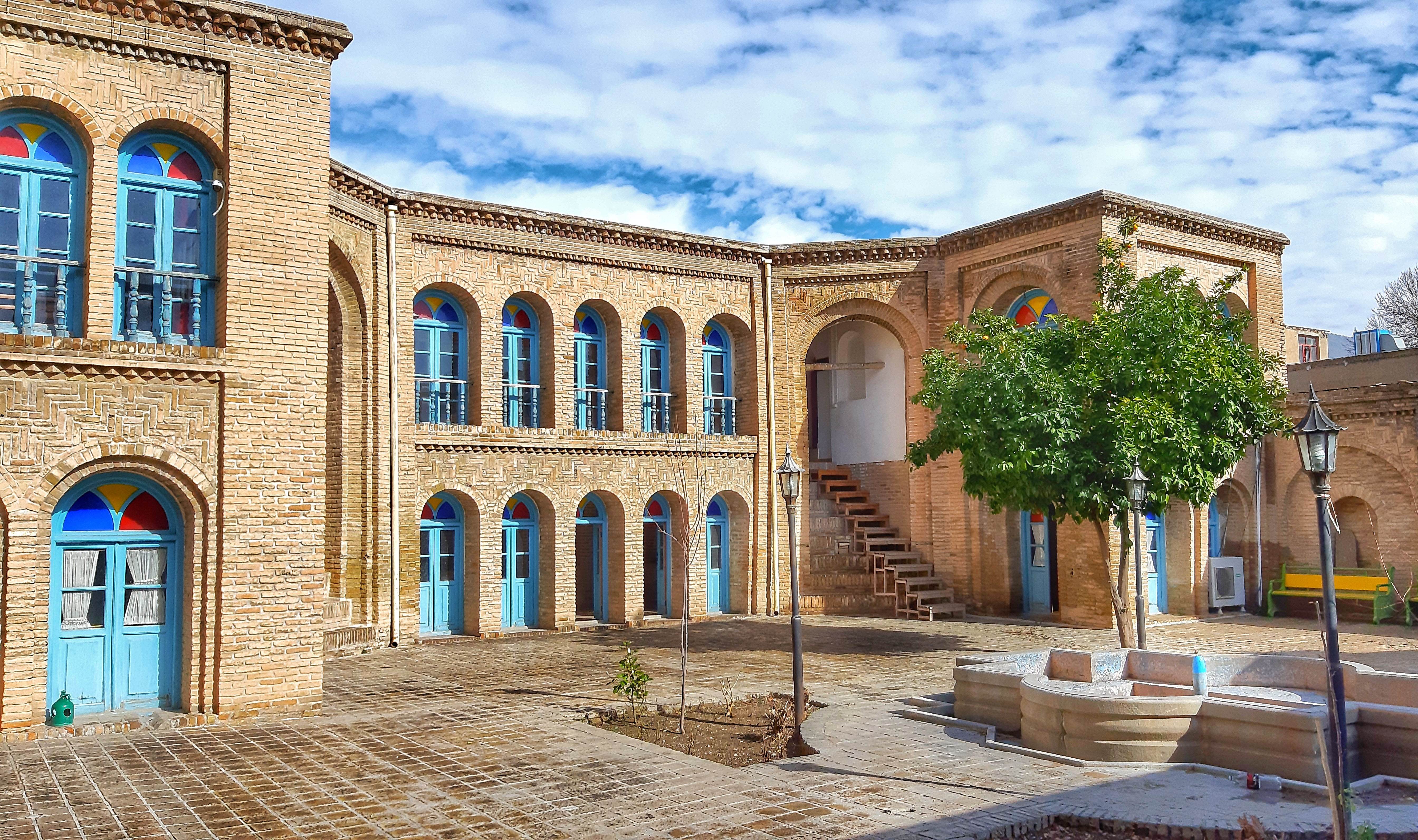 AkhoundAbu House KhorramAbad